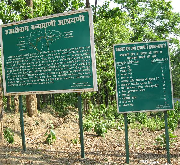 A board at the entrance of Hazaribag National Park giving details abour the Park in Hindi.